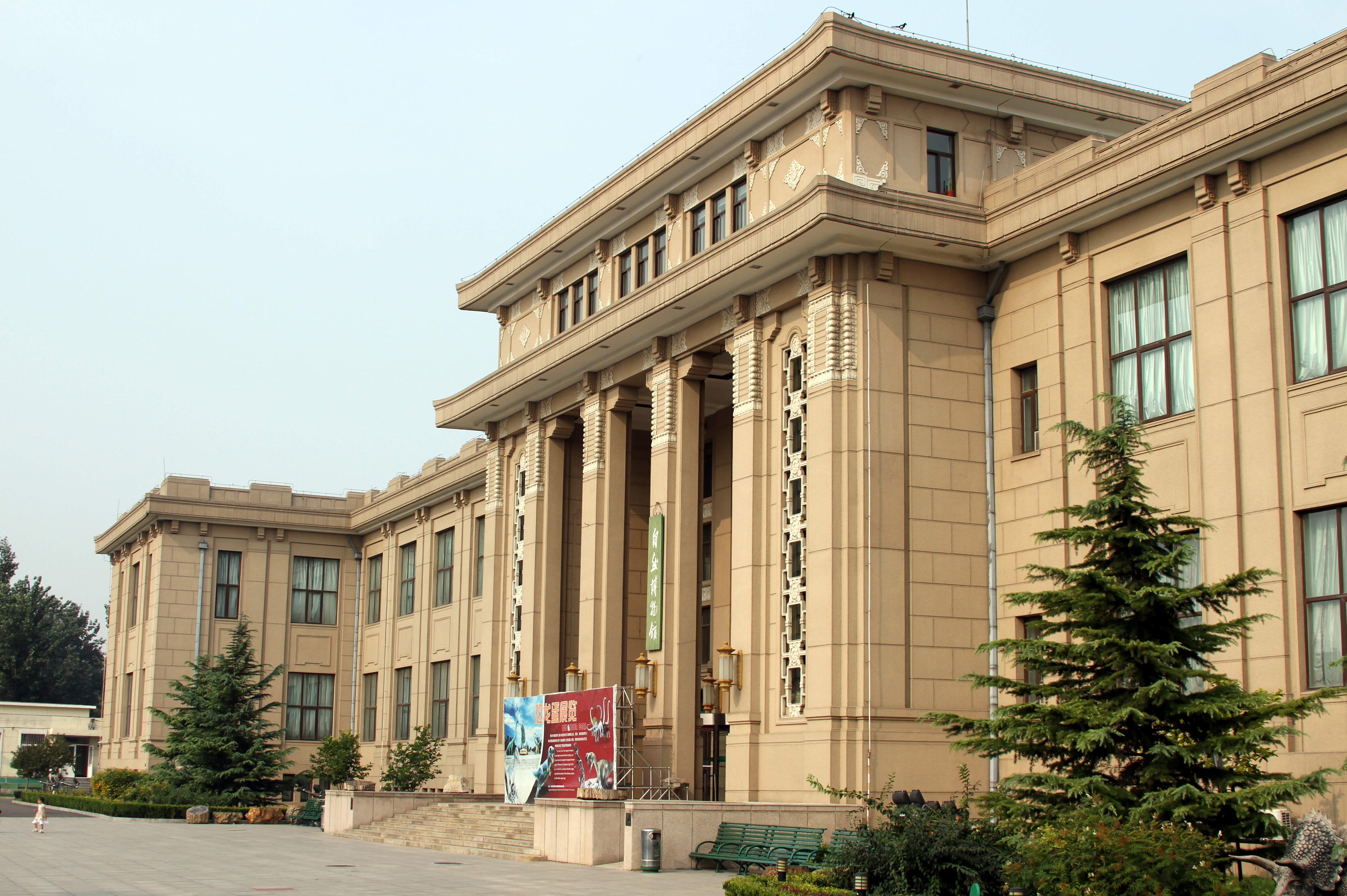 A exterior shot of the Beijing Museum of Natural History taken on September 4, 2010.